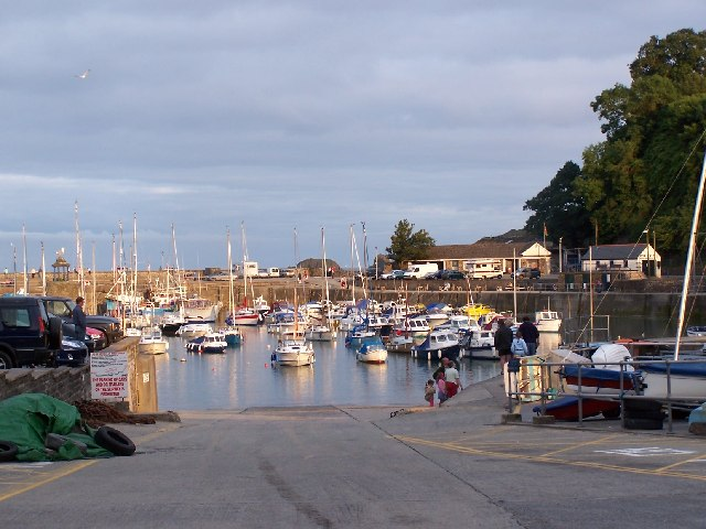 Saundersfoot Harbour. The Saundersfoot Railway and Harbour Company was given permission by Parliament to construct a harbour at the western end of the bay in 1829. Local collieries and ironworks used harbour to export their goods. Industry has now declined but the harbour still remains an important leisure and tourist attraction and is also in regular use by a small fleet of fishing boats.